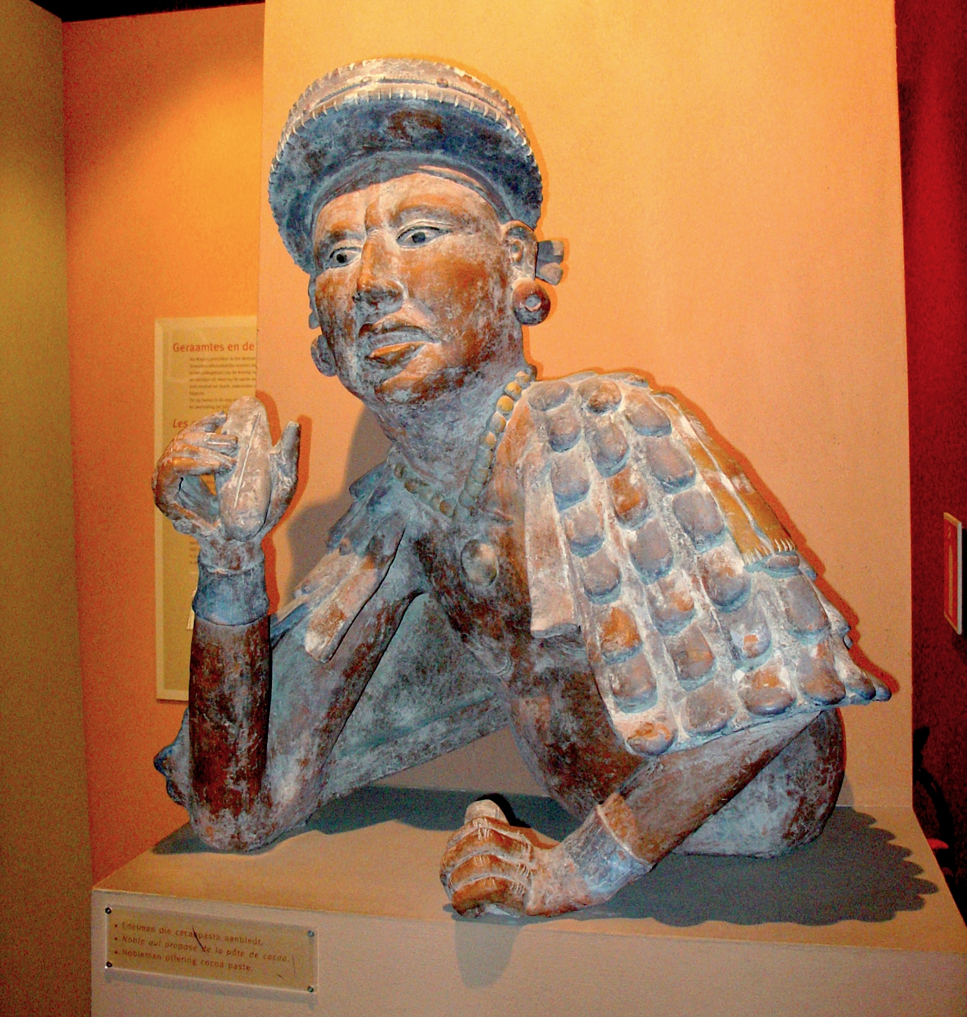 Nobleman offering cocoa paste. Maya's periode. Choco-Story museum Brugge (Belgium)